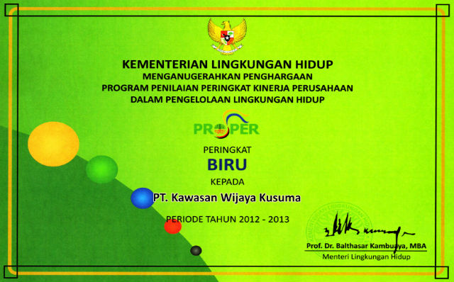 KIW PROPER